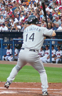 Picture I took of Josh Willingham on 6-5-07 21:48, 7 June 2007 . . Chrisjnelson . . 212×326 (146,306 bytes)